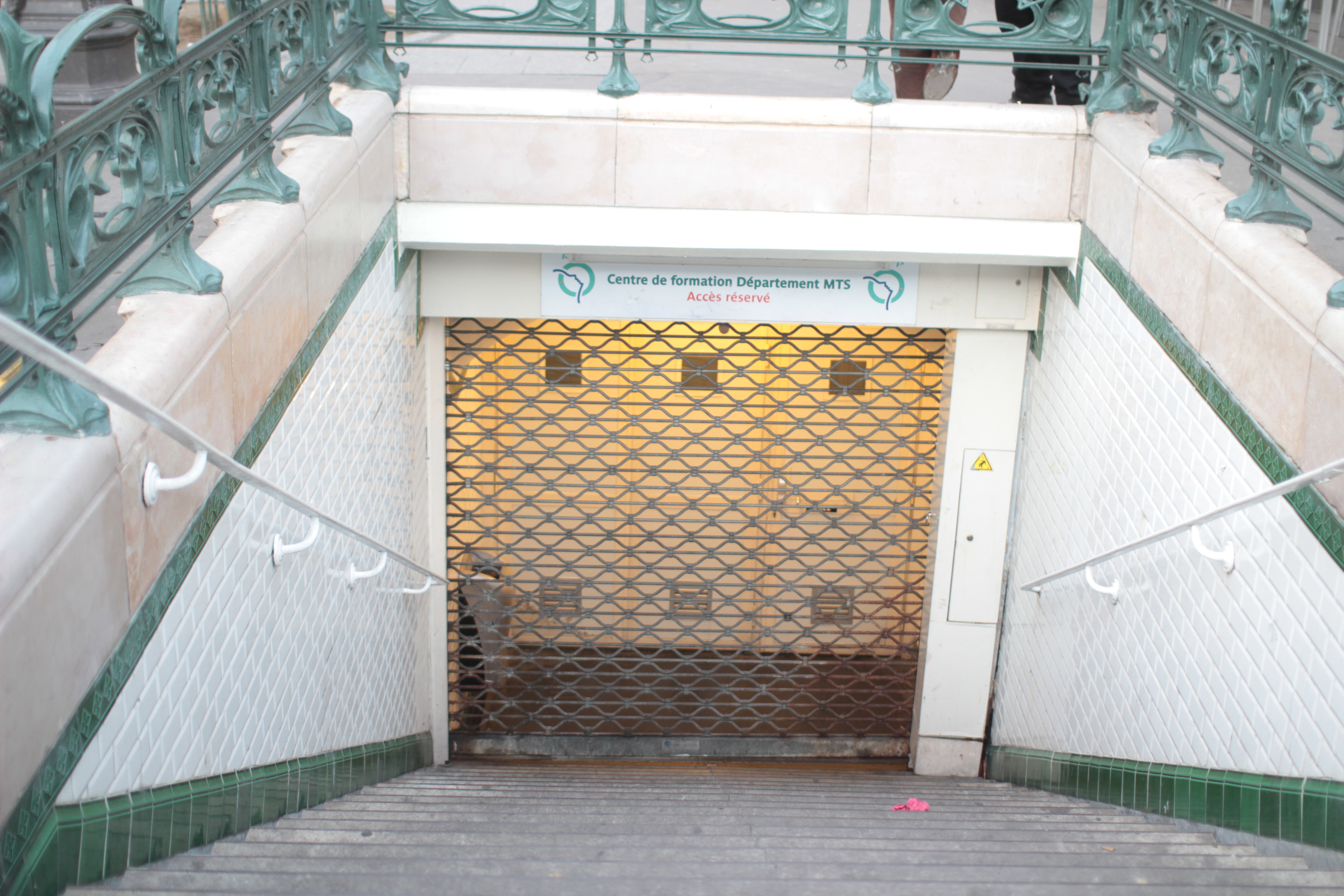 Entry of the ghost station Gare du Nord USFRT